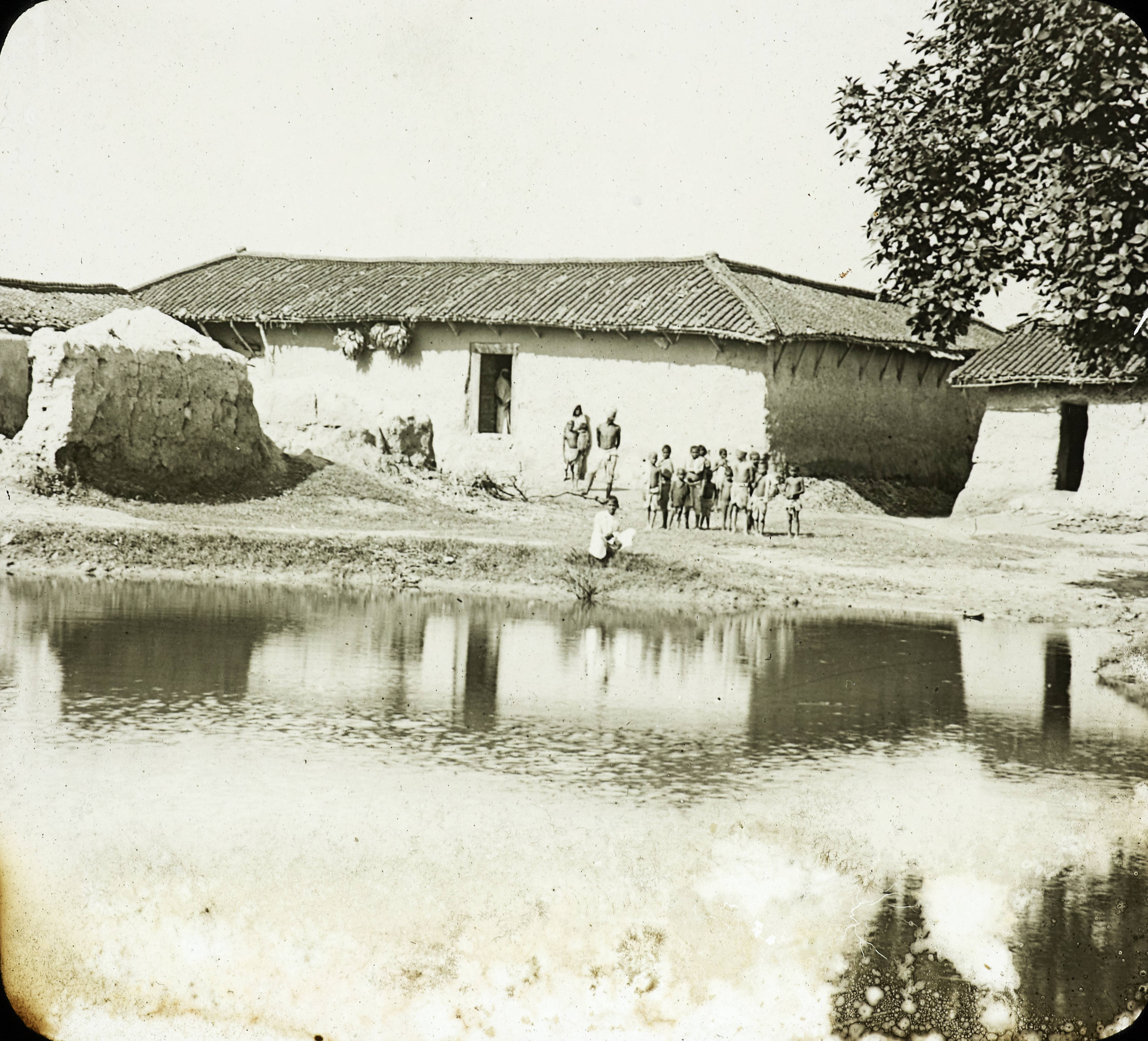 India. Hindu's mud house, ca. 1906 Black and white lantern slide showing a mud house in the village of Tarawa in Bihar, India. A group of people stands in front of the house, and produce hangs to dry on its eaves. A female figure can be seen in the doorway. A small body of water lies in front of the house. The main caption to this slide reads: "India. Hindu's Mud House." A secondary caption reads: "Tarawa Village." This slide comes from a collection created by missionaries from Regions Beyond Missionary Union, an interdenominational Protestant evangelical mission working in northeast India (Bihar and Orissa) and Nepal. Photographer: Unknown Filename: IMP-CSCNWW33-OS14-30.tif Coverage date: 1900/1910 Subject (unesco): Houses; Buildings Part of collection: International Mission Photography Archive, ca.1860-ca.1960 Part of subcollection: Photographs from the Centre for the Study of World Christianity, University of Edinburgh, U.K., ca.1900-ca.1940s Repository name: Centre for the Study of World Christianity Archival file: Volume3/IMP-CSCNWW33-OS14-30.tif Repository address: The University of Edinburgh School of Divinity, New College, Mound Place, Edinburgh EH1 2LX, United Kingdom Geographic subject (country): India Format (aacr2): lantern slides 8.2 x 8.2cm Geographic subject (continent): Asia Rights: Contact the repository for details. Part of series: Regions Beyond Missionary Union. India captioned lantern slides (CSCNWW33/OS14) Repository Date created: 1900/1910 Publisher (of the digital version): University of Southern California. Libraries Subject (aat genre): exterior views Format (aat): lantern slides; photographs Geographic subject (state): Bihar Access conditions: Geographic subject: buildings File: CSCNWW33/OS14/30 Subject (lcsh): Dwellings; Architecture, domestic